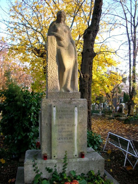 Tomb of Béla Lengyel (Farkasréti Cemetery, Budapest)